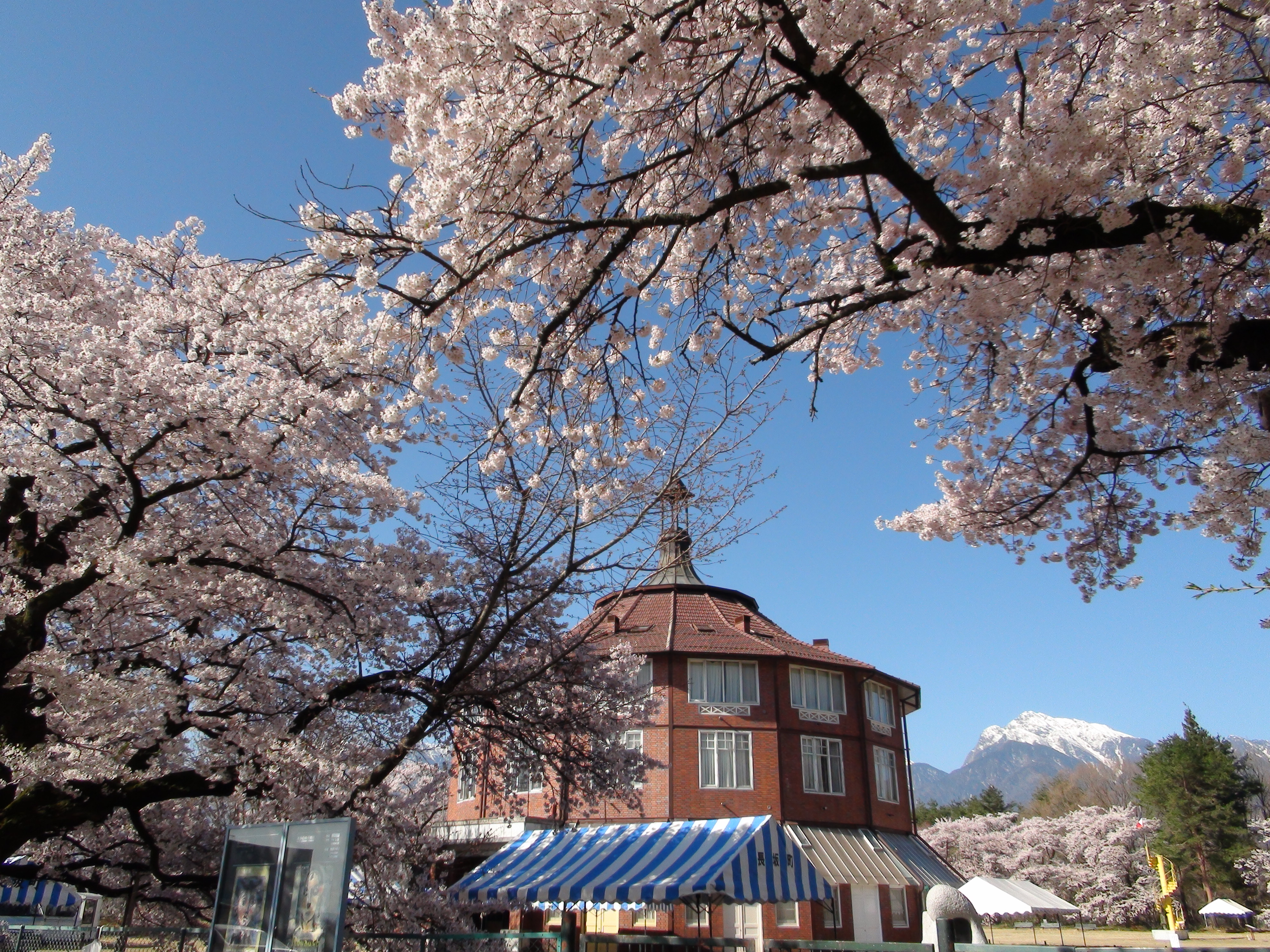 Musée Kiyoharu Shirakaba